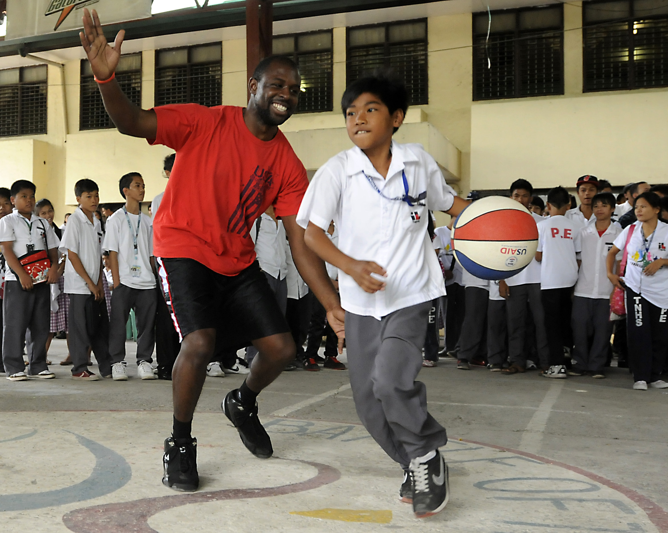 Intelligence Specialist 1st Class Shadaorn Odom, assigned to the U.S. 7th Fleet flagship USS Blue Ridge (LCC 19), plays basketball with a Filipino boy at Taguig National High School during a community service event. Sailors and Marines assigned to Blue Ridge and embarked U.S. 7th Fleet staff are conducting community service events, combined military training and cultural exchanges to strengthen ties between the two countries. (U.S. Navy photo by Mass Communication Specialist 3rd Class Mel Orr)